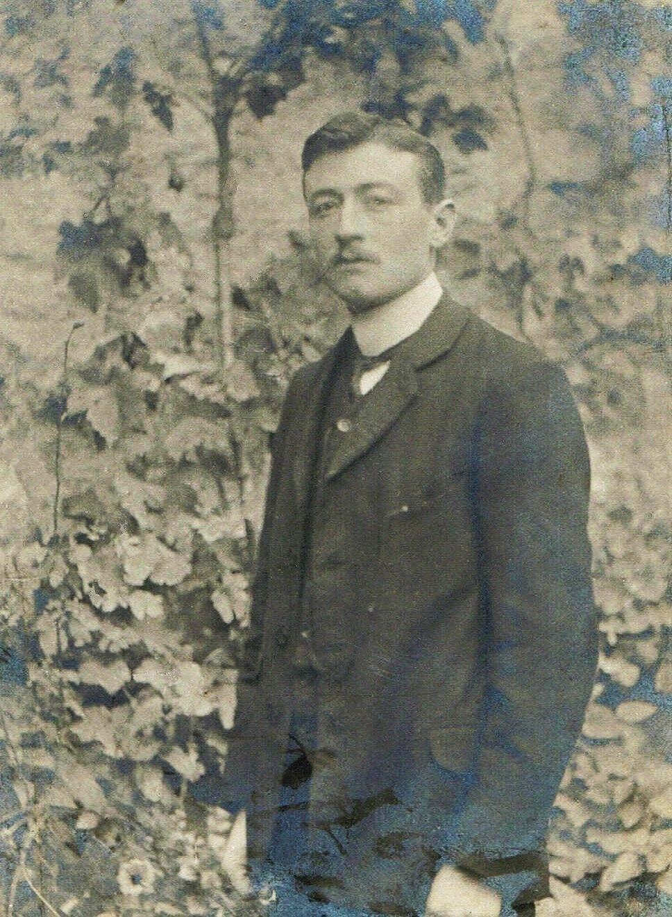 French lawyer Edmond Miniac (1884-1947), near 1910, anonymus photographer.